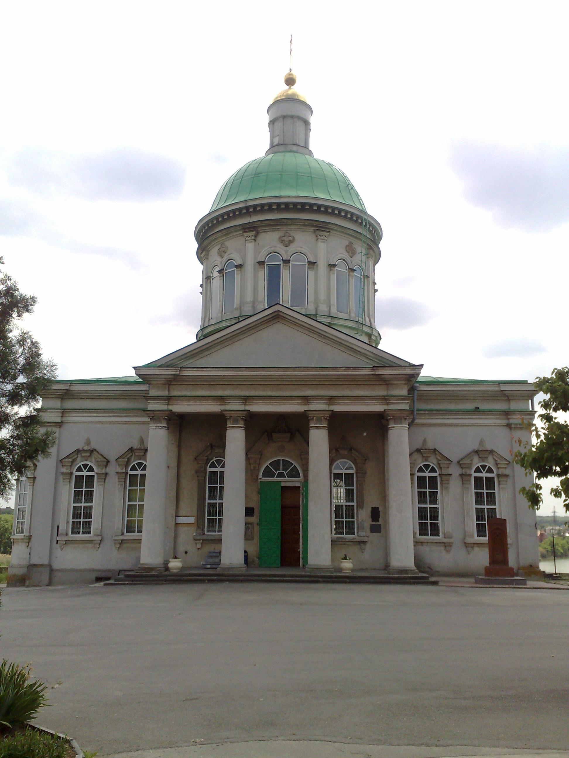 Armenian church Surb Khach in Rostov-on-Don